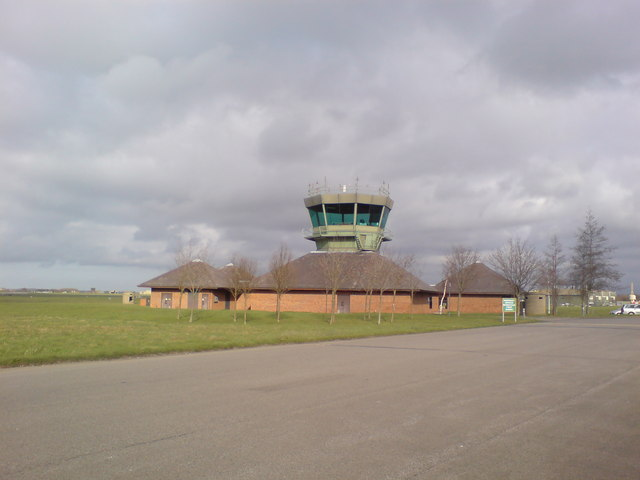 Air Traffic Control Tower, RAF Leeming The Control Tower, built in the late 80's, is nicknamed "The Happy Eater".